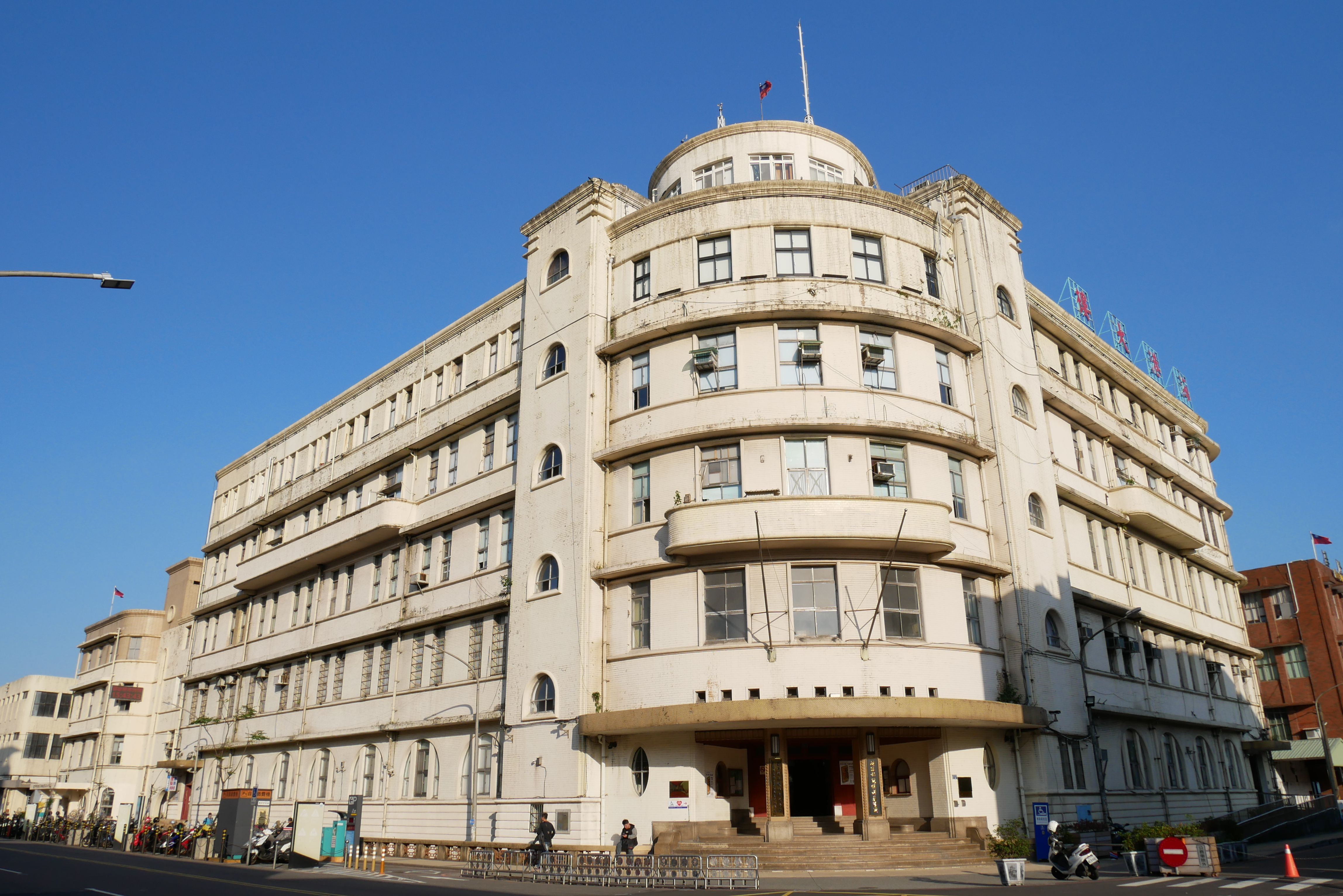 基隆港合同廳舍全景，基隆市仁愛區文昌里